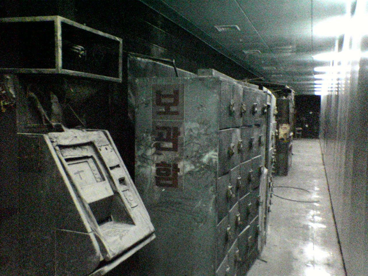 The coin-operated locker which was burned up for the Daegu subway fire(2003-02-13), in subway jungangno station, Daegu, South Korea. NOTICE: This photograph has no exposures, but Kussy will publish by original version of picture. If you want to reuse this picture, you may fix the exposure with properly by yourself.(Japanese:この写真は露出不足だが、オリジナルのまま公開する。再使用に際しては使用者において適切に修正されたい。)